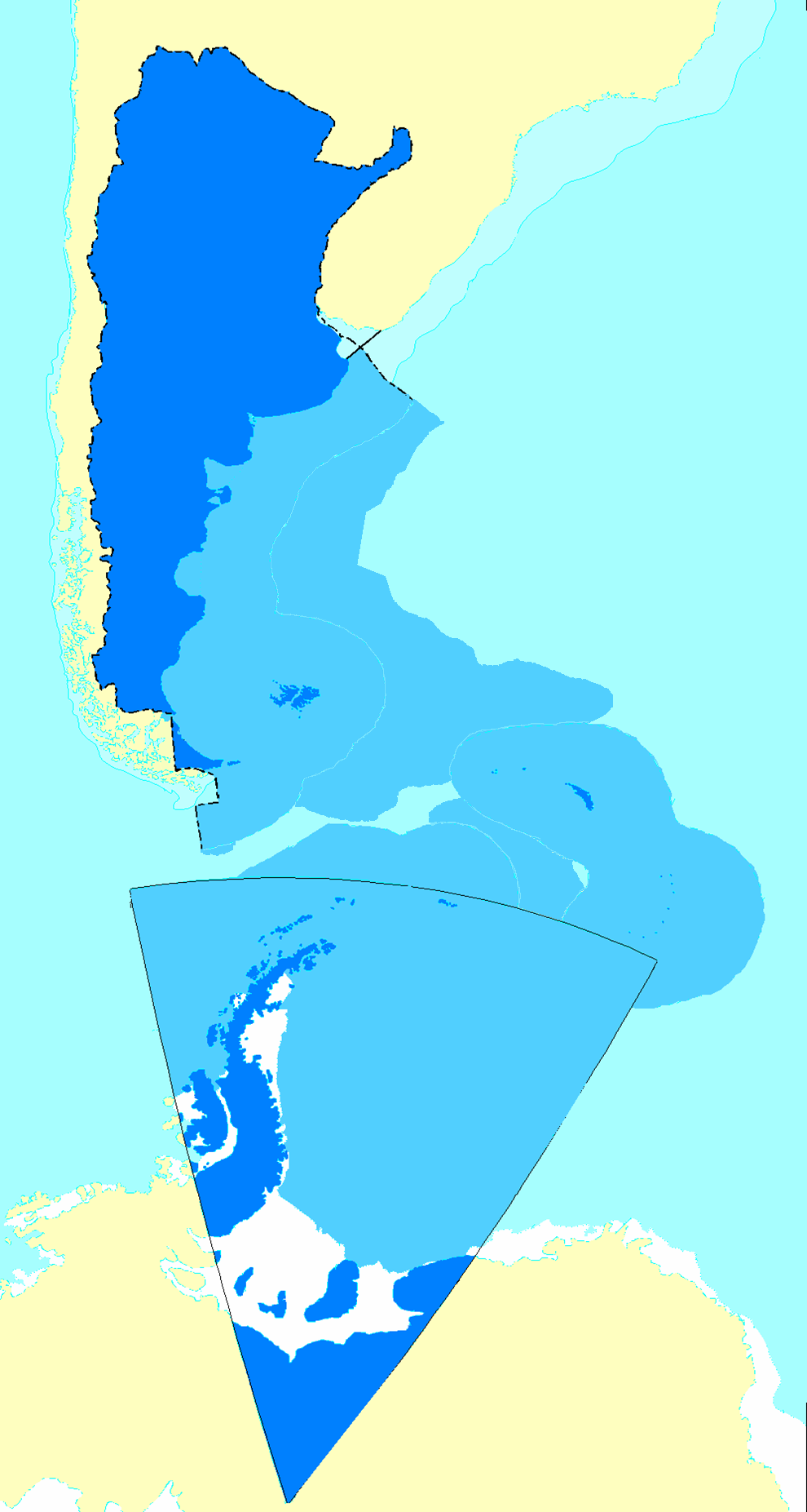 Map of Argentina showing all the territories recognized by that country's government as their own.